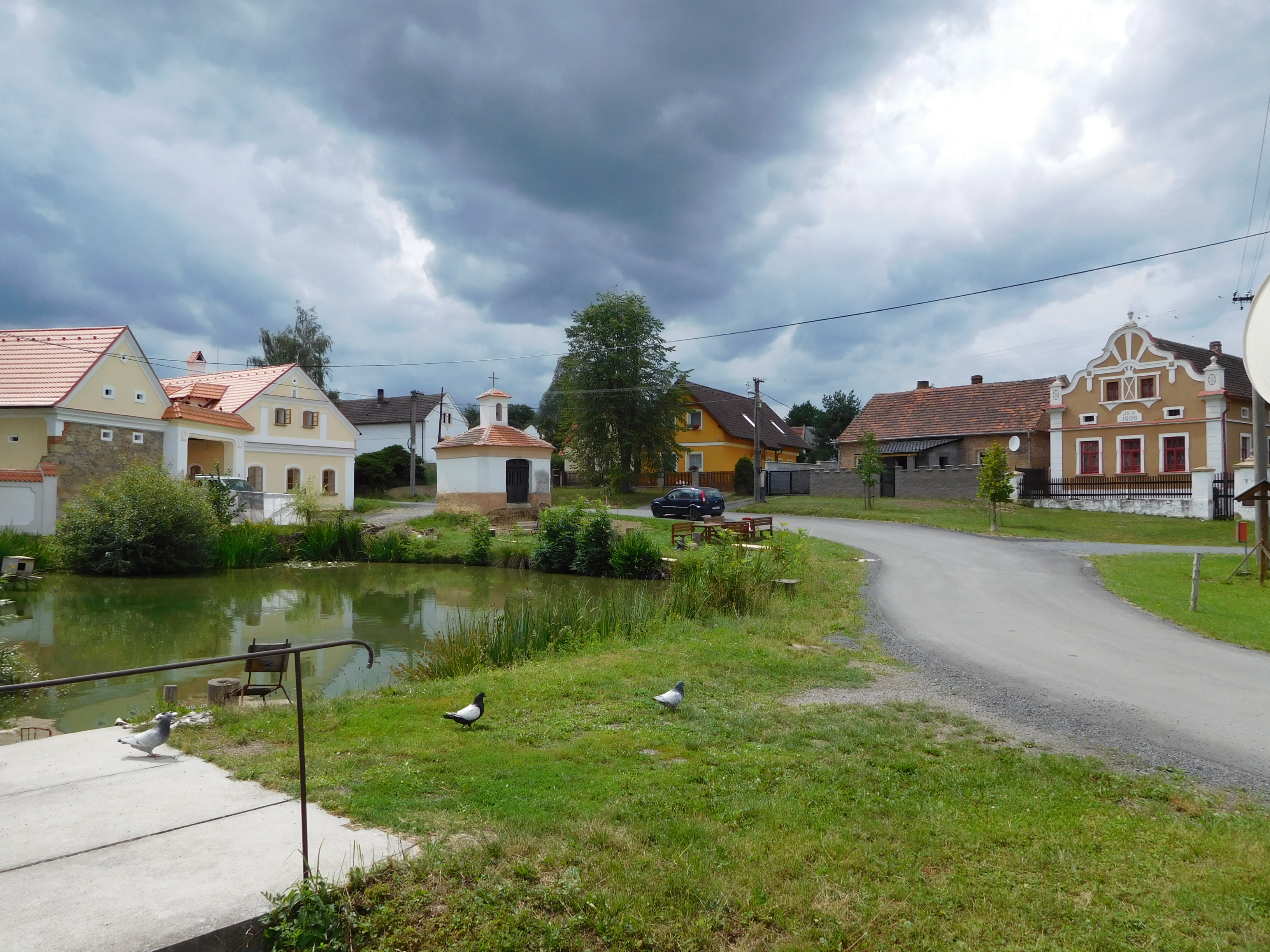 Knije, Czechia - village green with pond and chapel